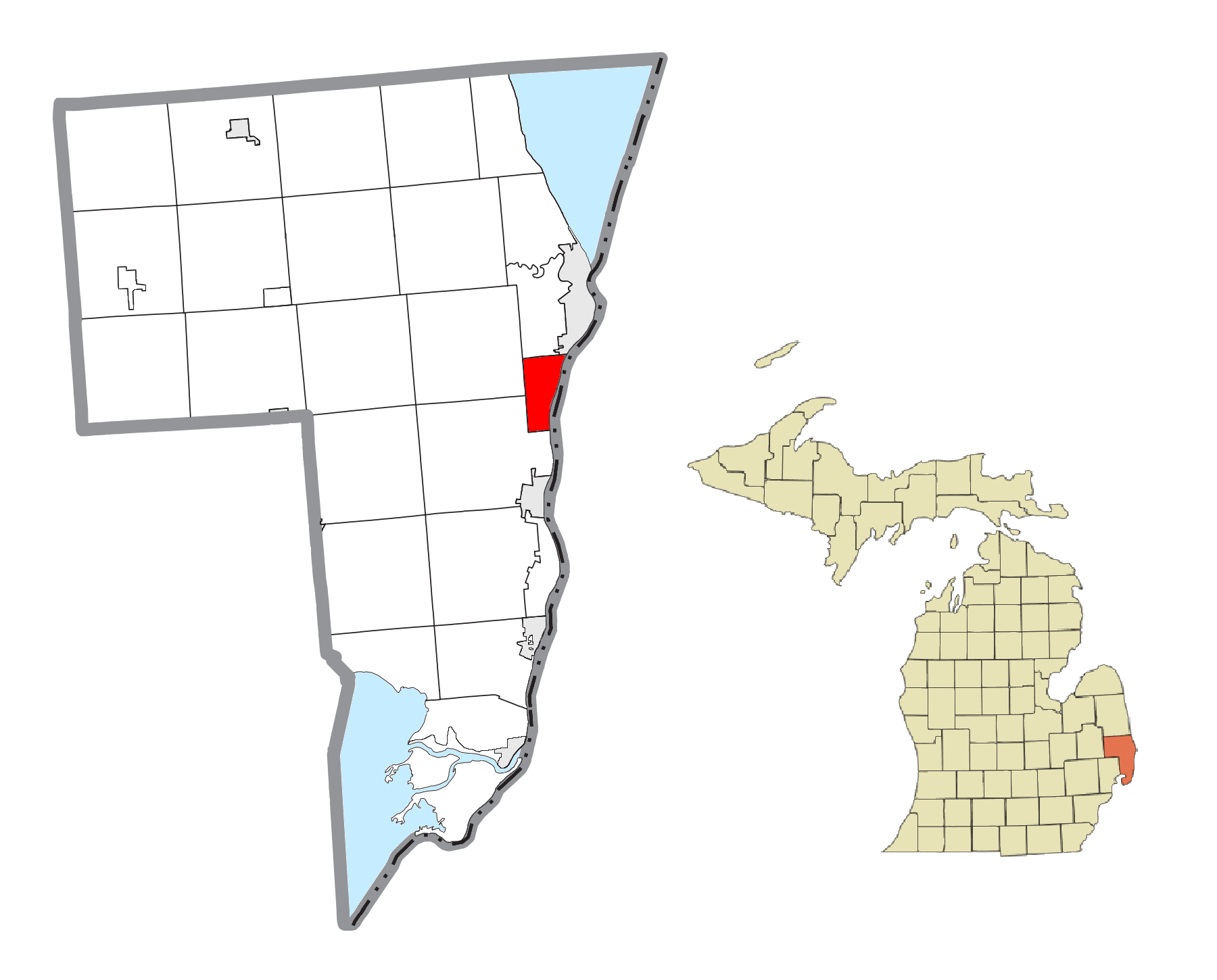 Marysville, MI